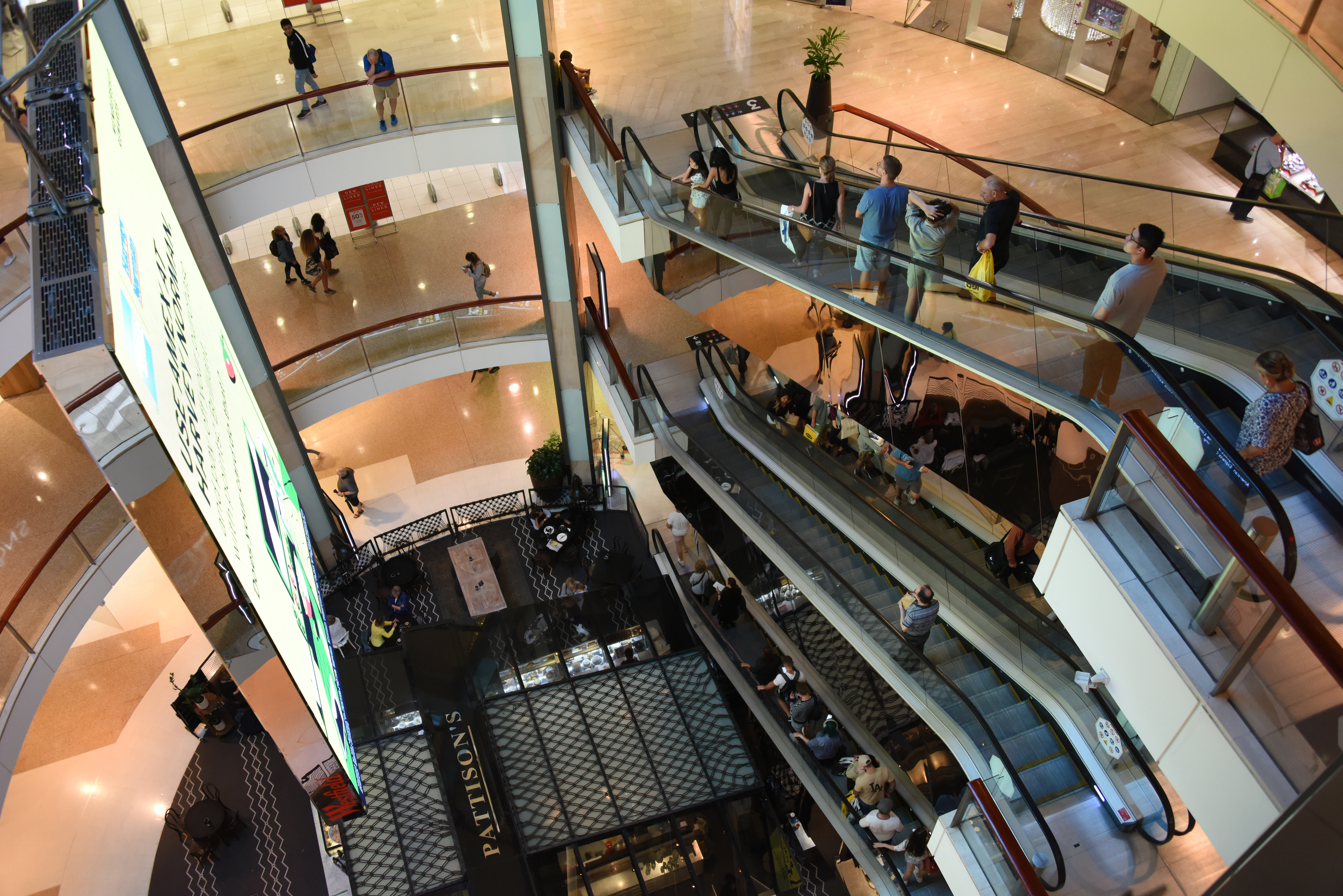 Westfield shopping centre, Bondi Junction, Sydney